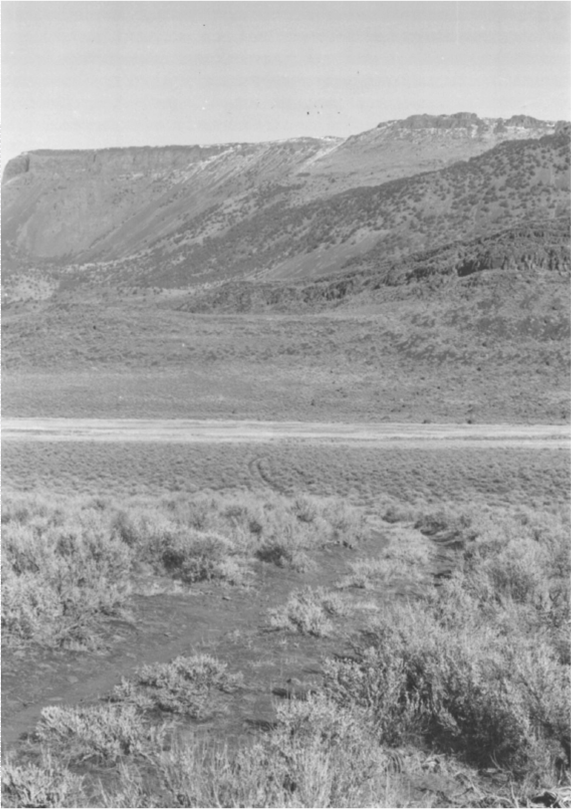 Looking northeast along the old Oregon Central Military Wagon Road toward the Stone Bridge (causeway) with Hart Mountain in the background.